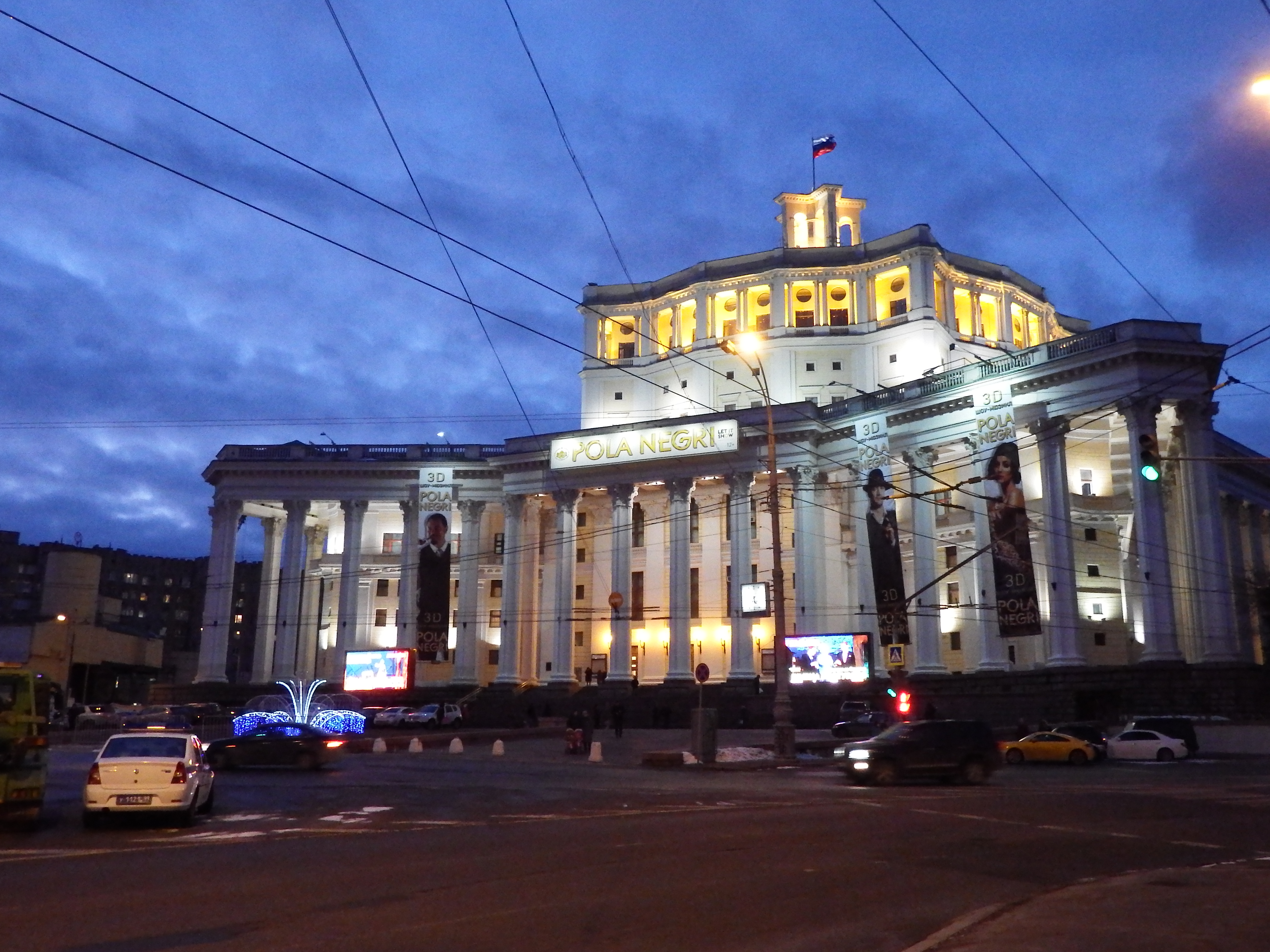 The theater of Russian Army